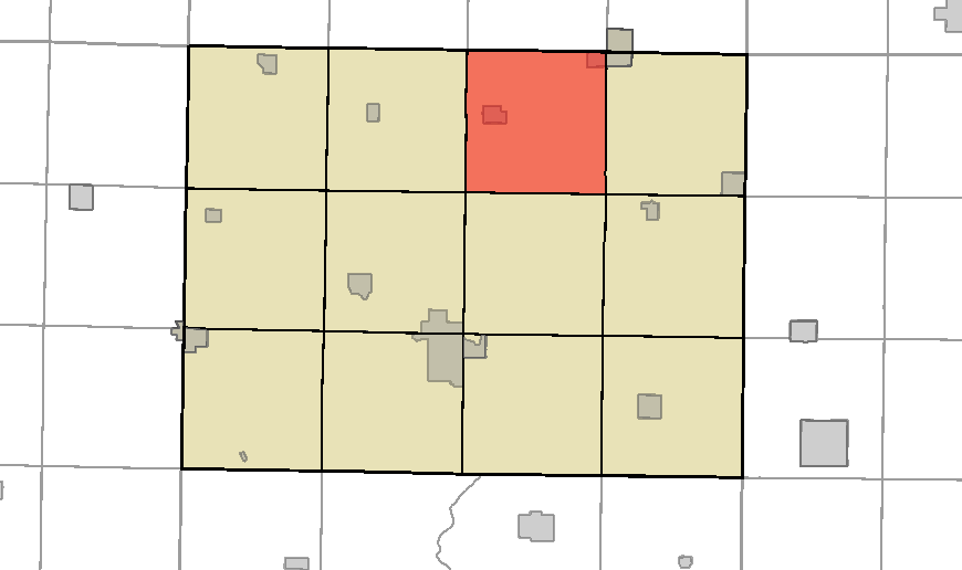 This is a map of Humboldt County, Iowa, USA which highlights the location of Humboldt Township.